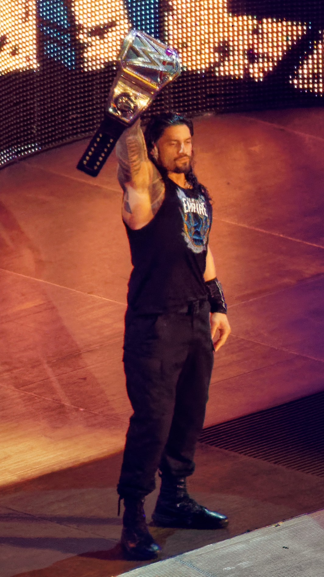 Roman Reigns as WWE World Heavyweight Champion during the Raw after WrestleMania 32